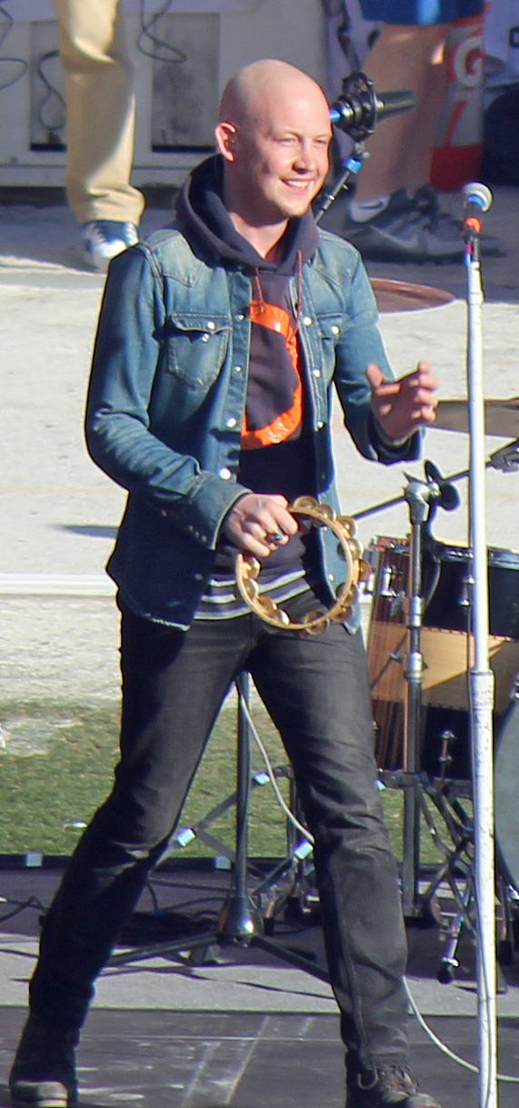 Isaac Slade, a musician and member of the rock group The Fray. The picture was taken during half time at the 2013 AFC Championship game between the Denver Broncos and the New England Patriots at Sports Authority Field in Denver, Colorado.